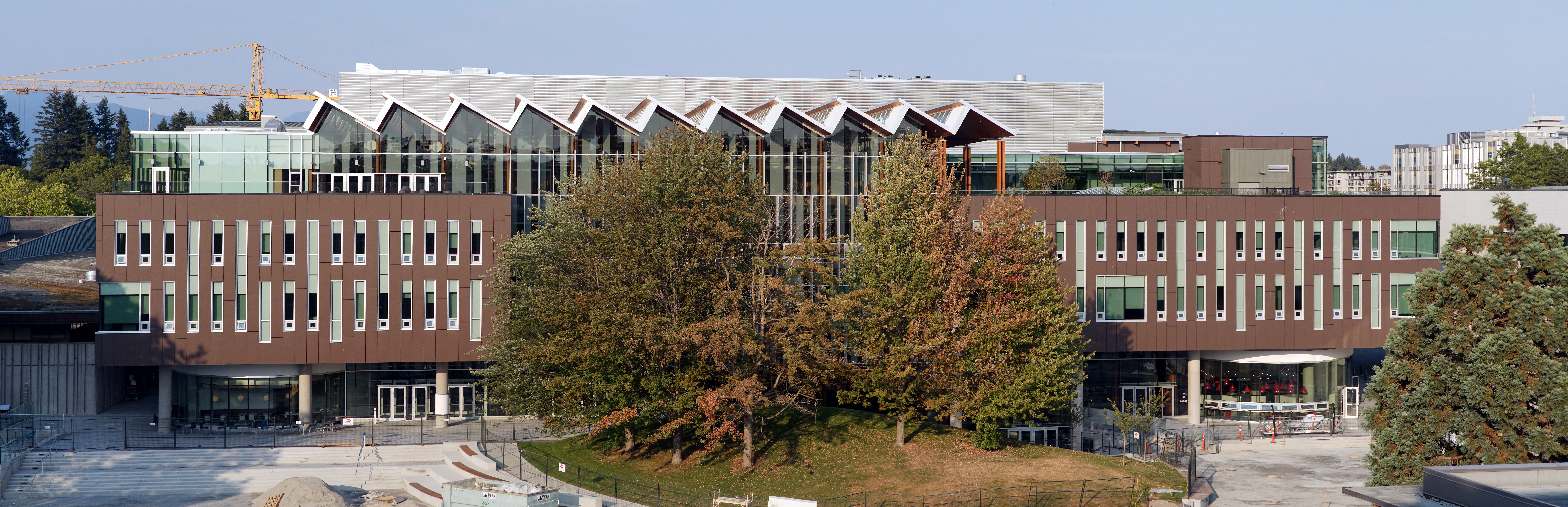 The new Student Union Building of the University of British Columbia in Vancouver, BC. The building was opened to students in summer 2015, just before this photo was taken, even though construction is not complete yet. This photo was stitched from three frames taken through glass from the stairwell of the fifth floor of the Hebb Building. Unfortunately, I do not remember the password to the Engineering Physics penthouse on the sixth floor of the Hebb building, and short of gaining roof access, there is no way for there to be better image quality.